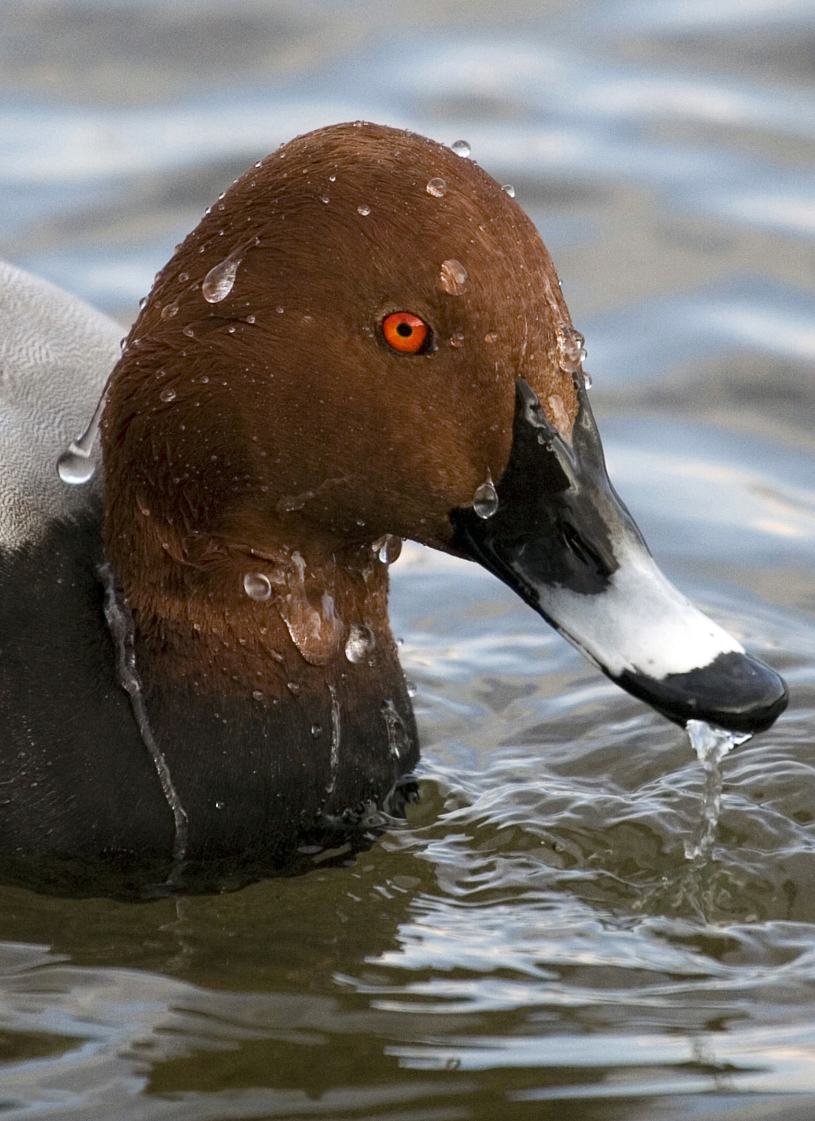 Common Pochard